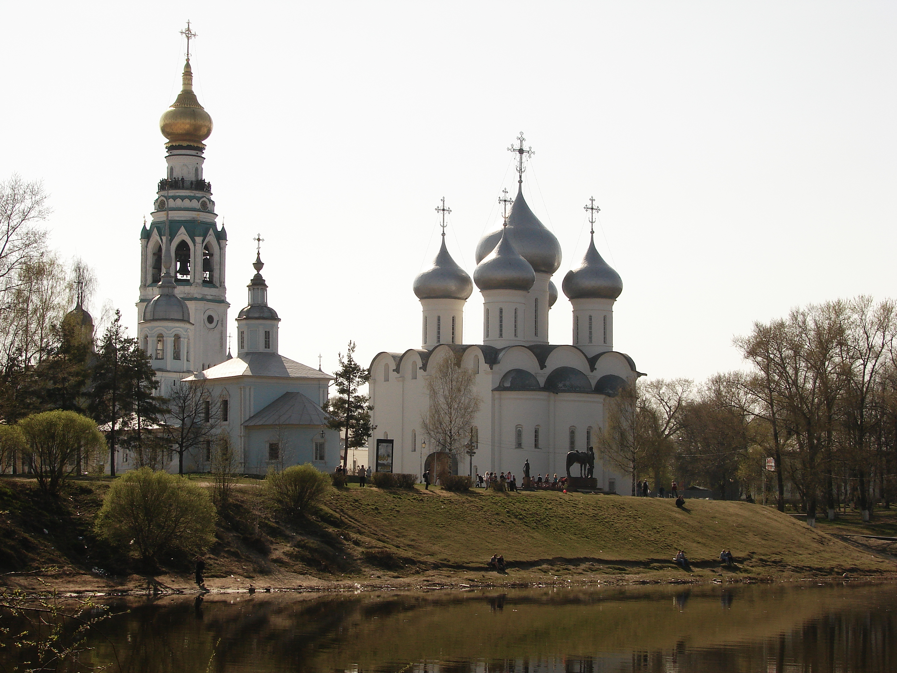 Russia, Vologda, Alexander Nevsky Church, Saint Sophia Cathedral